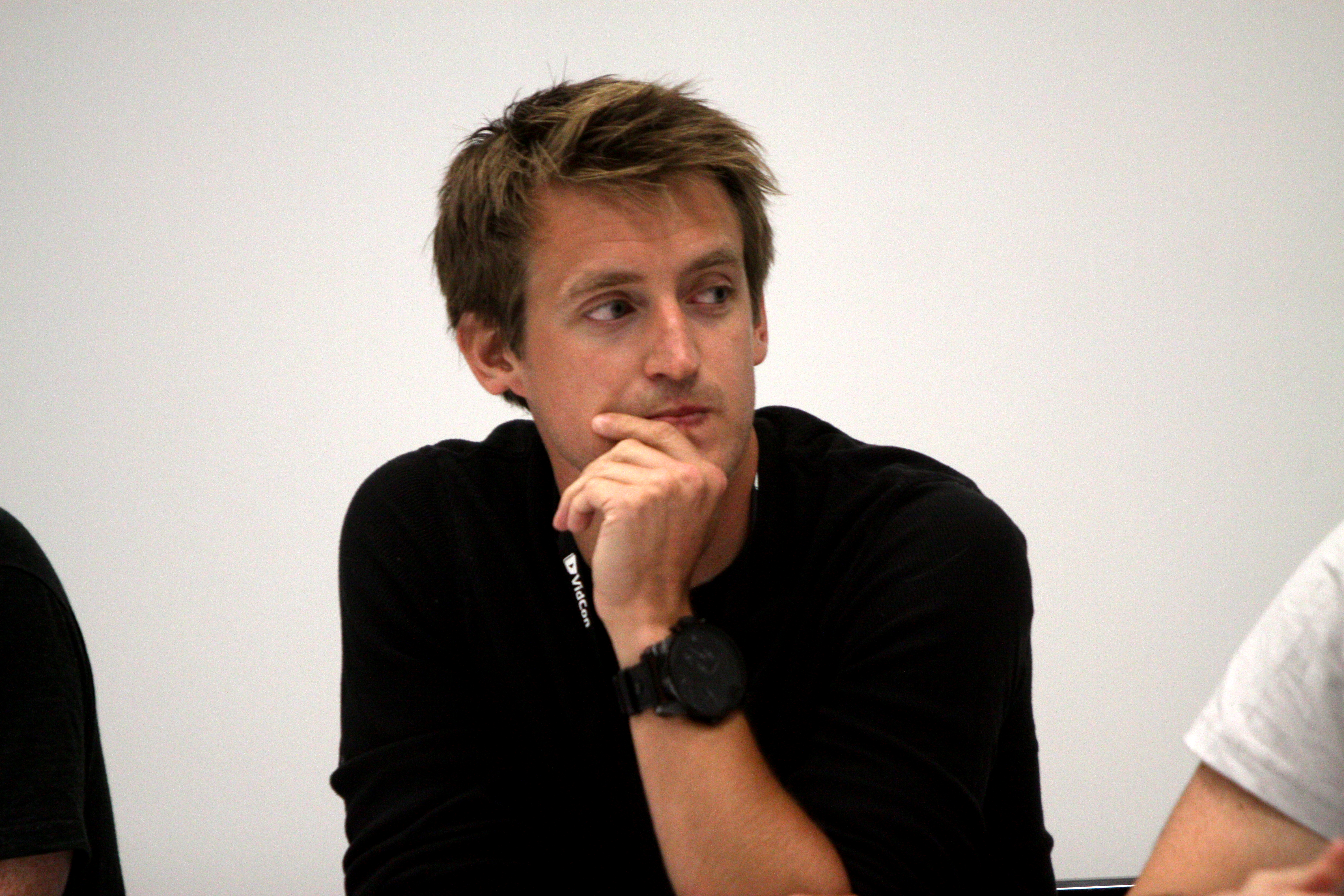 Aaron Massey speaking at VidCon 2012 at the Anaheim Convention Center in Anaheim, California.